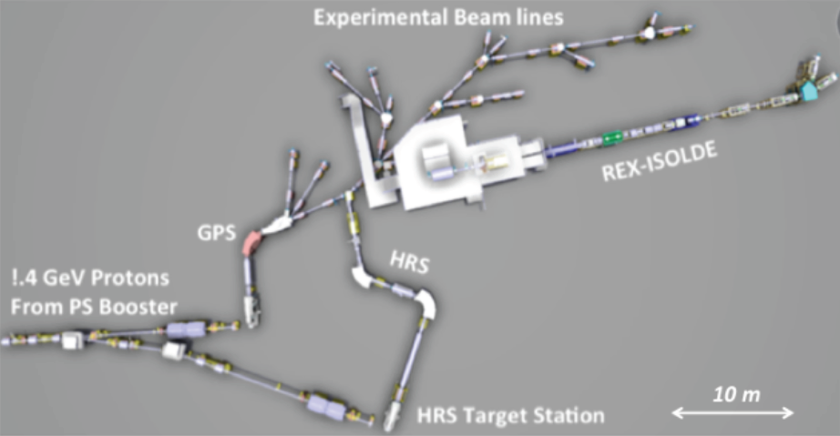 The main elements of the ISOLDE facility are shown. The high intensity (3x10^13/pulse) and high energy (1.4 GeV) proton beam from the PS Booster of CERN is directed to one of the two target-ion source units for the production of radioactive species. The out coming 1+ ions are mass separated in A/Q either in the HRS or in GPS magnets and injected into the main beam line. The 60 KV beam is directed to the different low energy experiments or post-accelerated in REX-ISOLDE.